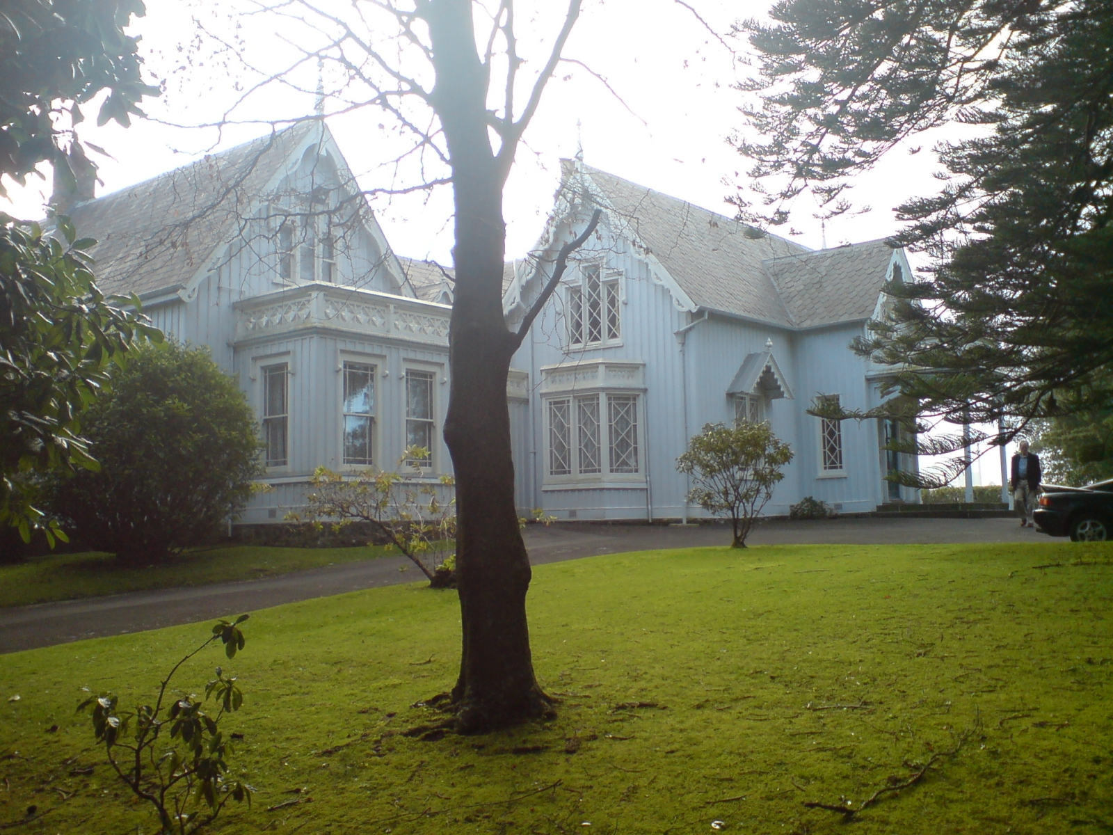 'Highwic House' in Newmarket, Auckland City, New Zealand. Looking northwest towards the main building. New Zealand Historic Places Trust Register number: 18